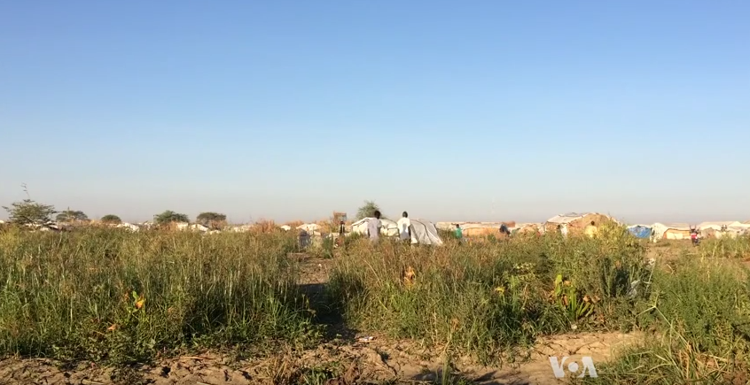 view of Bentiu